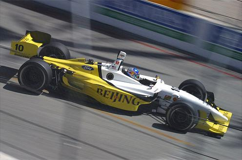 AJ Almendinger, 2005 Toyota Grand Prix of Long Beach, Long Beach California